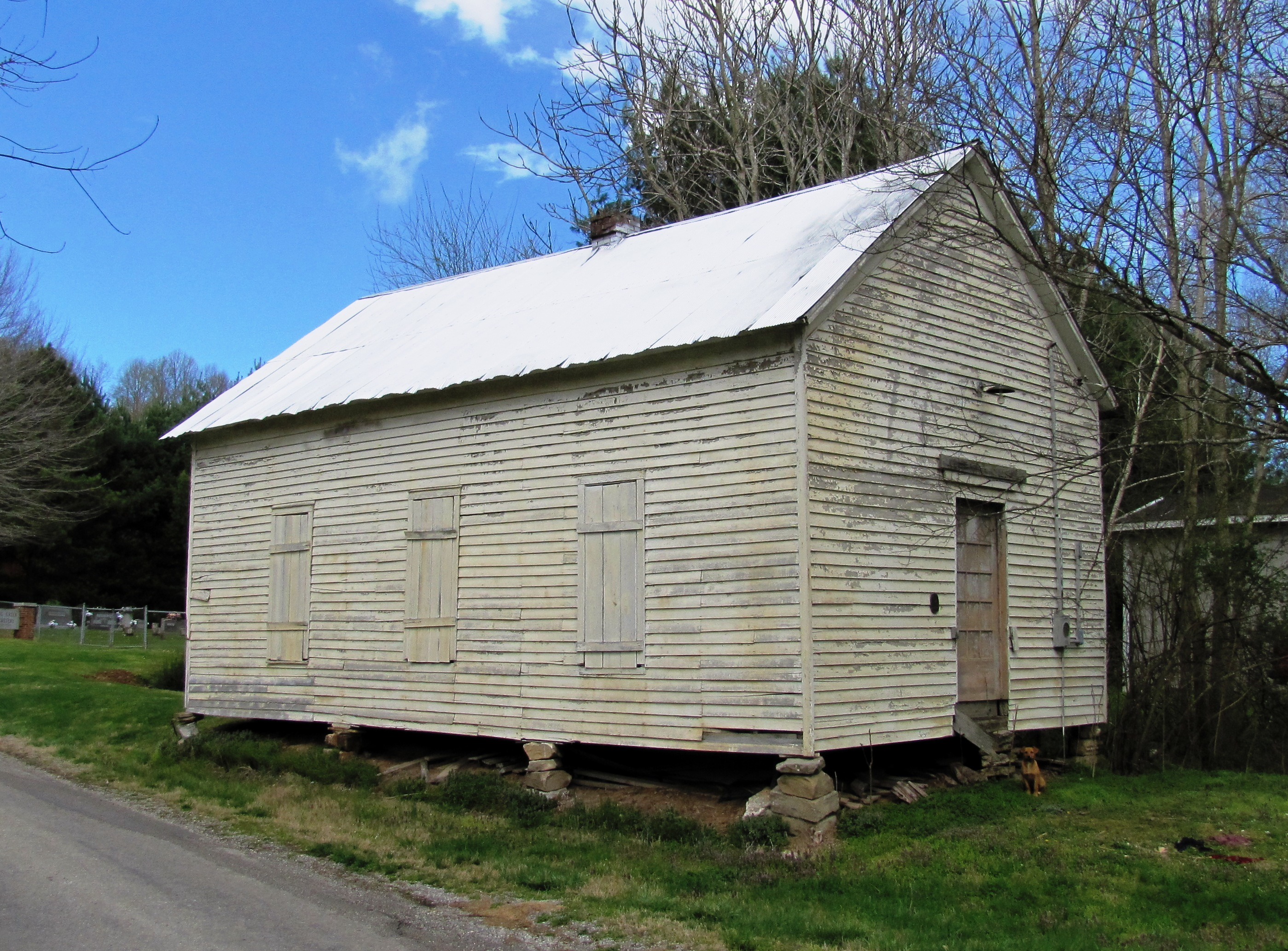 The NRHP-listed Long Creek School near Lafayette, Tennessee, USA. The little dog at the doorstep appeared to be guarding the place.